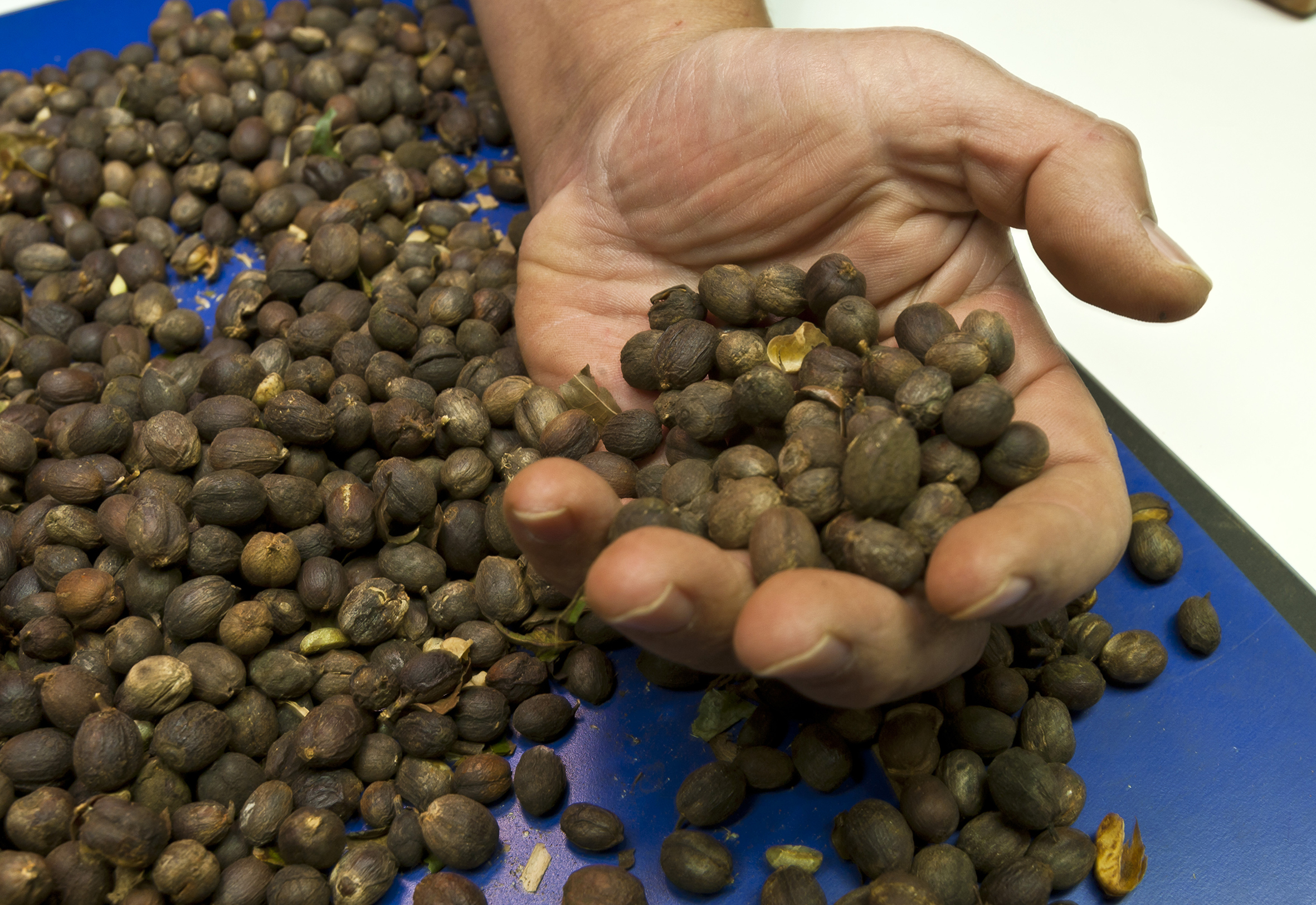 Grading is the process of categorizing coffee beans on the basis of various criteria such as size of the bean, where and at what altitude it was grown, how it was prepared and picked, and how good it tastes, or its cup quality. Coffees also may be graded by the number of imperfections (defective and broken beans, pebbles, sticks, etc.) per sample. For the finest coffees, origin of the beans (farm or estate, region, cooperative) is especially important. Growers of premium estate or cooperative coffees may impose a level of quality control that goes well beyond conventionally defined grading criteria, because they want their coffee to command the higher price that goes with recognition and consistent quality.